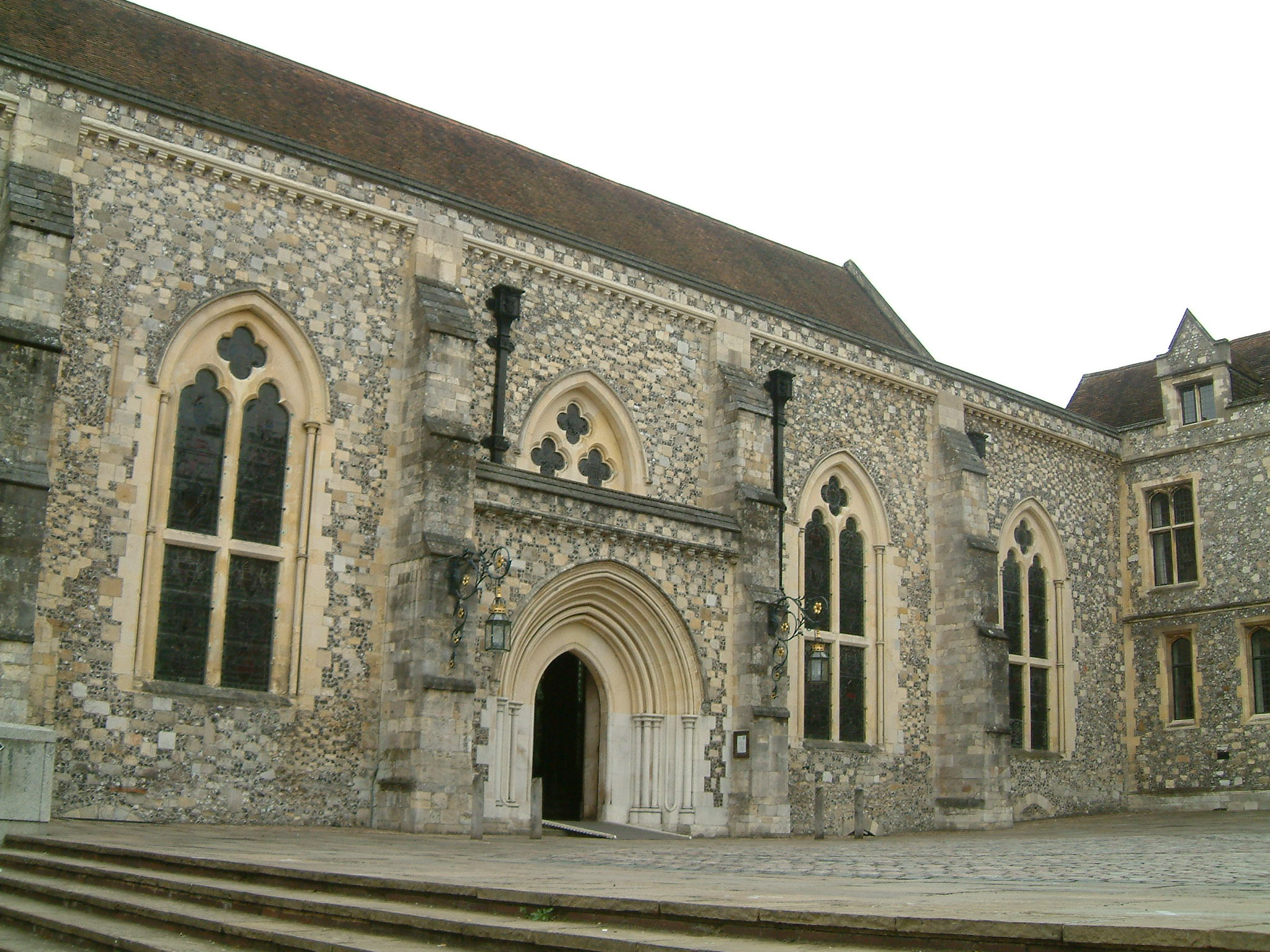 External view of the Great Hall, Winchester Castle, Hampshire, England